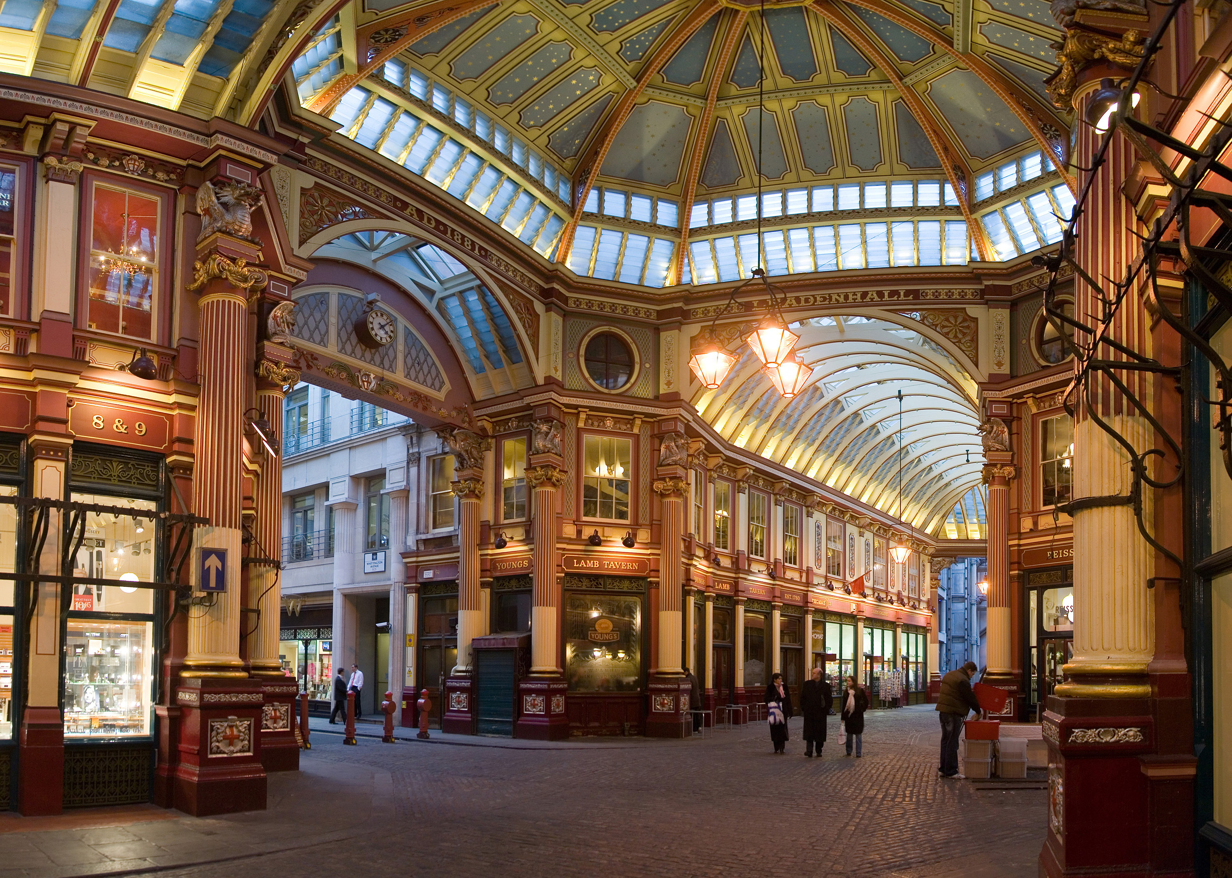 This is a panorama of 3 segments taken with a Canon 5D and 24-105mm f/4L IS.